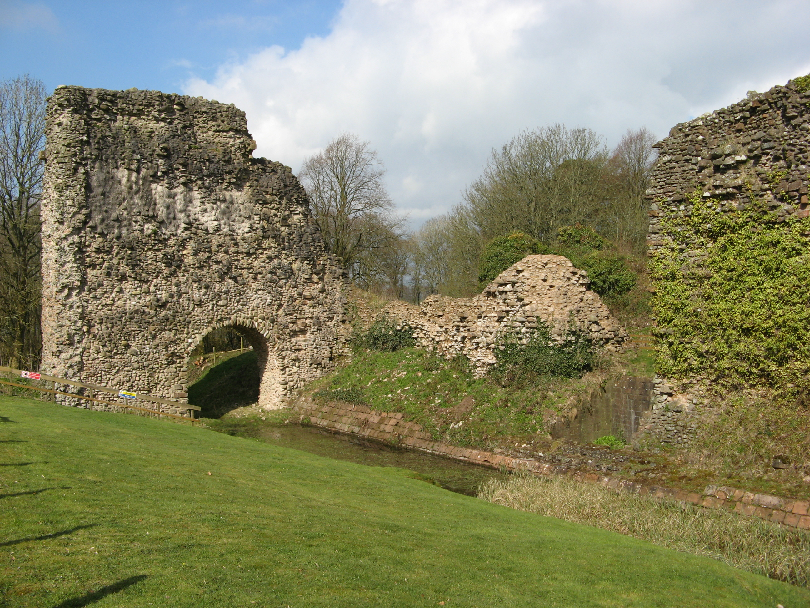 Lochmaben Castle, Dumfries and Galloway, Scotland. View from the south showing entrance, moat and drawbridge pit.